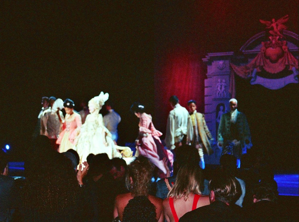 AIDS PROJECT LOS ANGELES benefit with Madonna and other stars, December, 1990 Photo by Alan Light